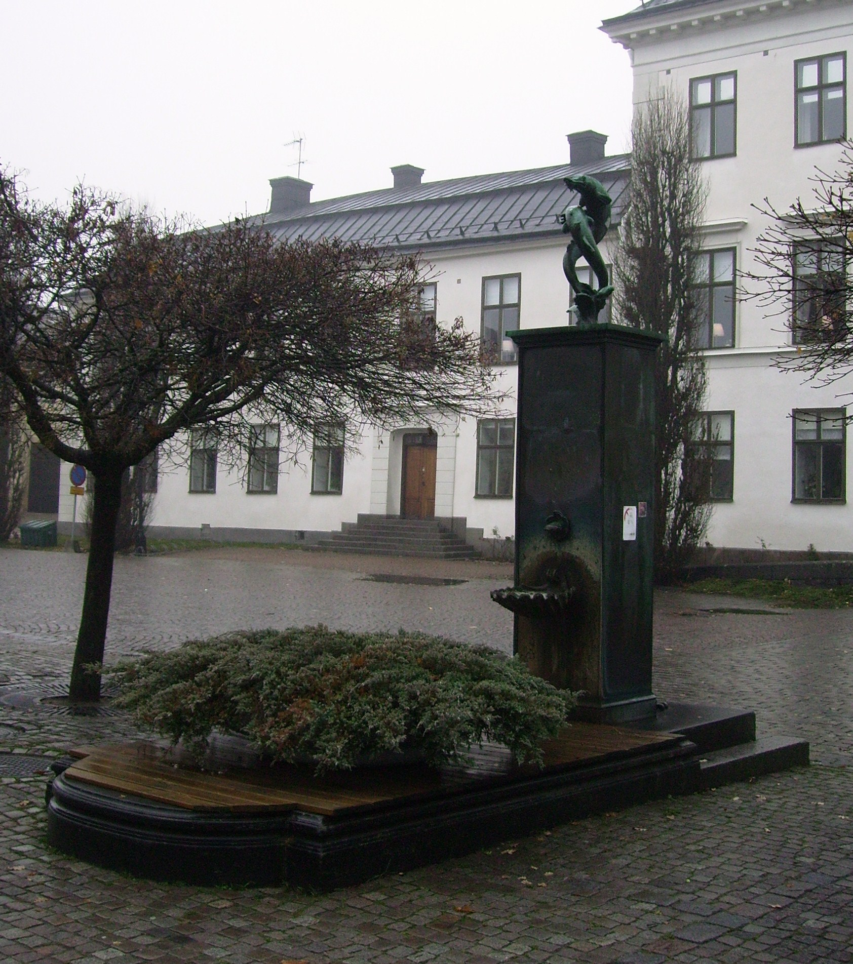 Picture of Torgbrunnen on Stora torget in Nyköping